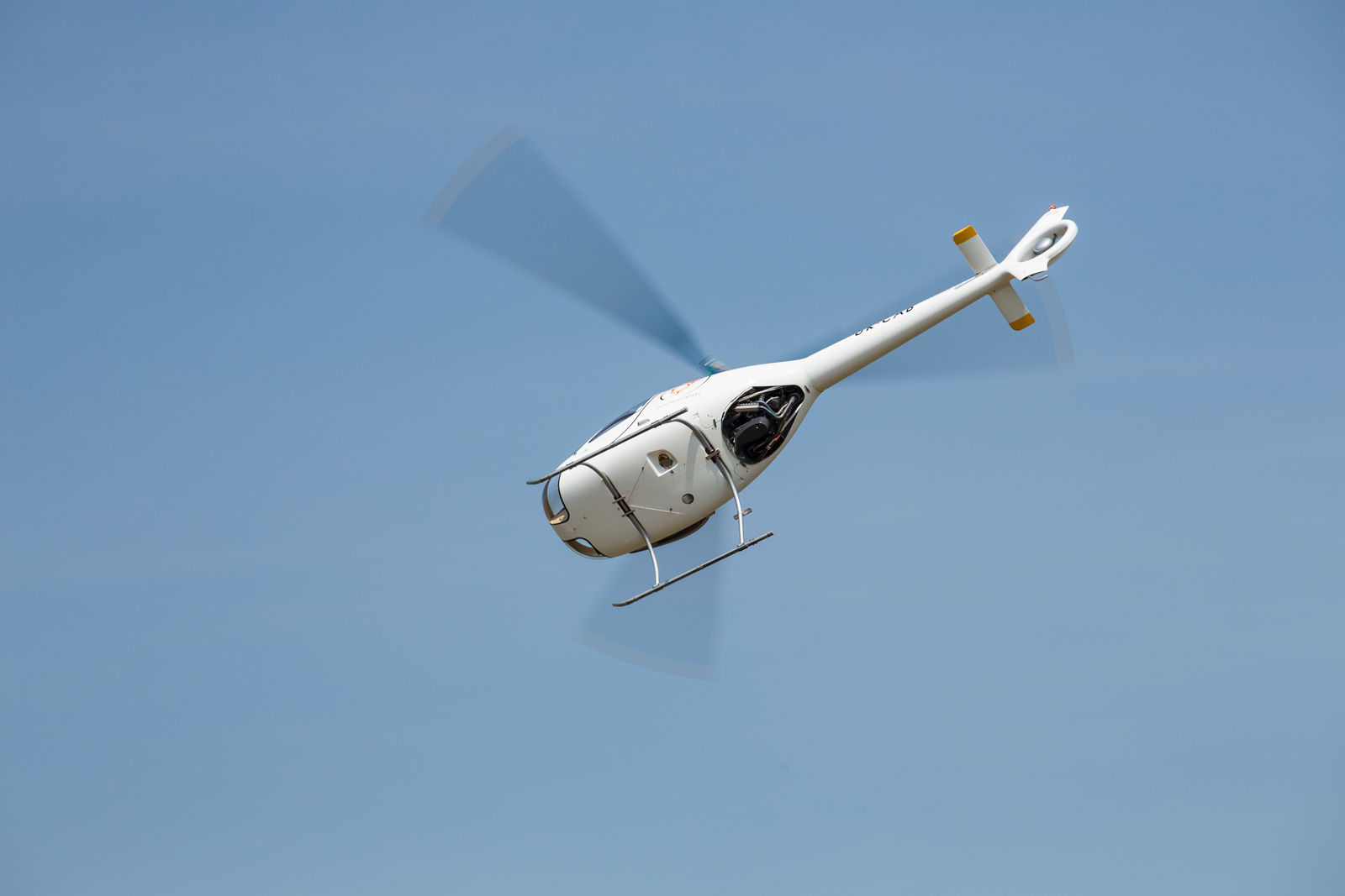 Guimbal Cabri G2 OK-CAB, Owner LION Helicopters s.r.o.